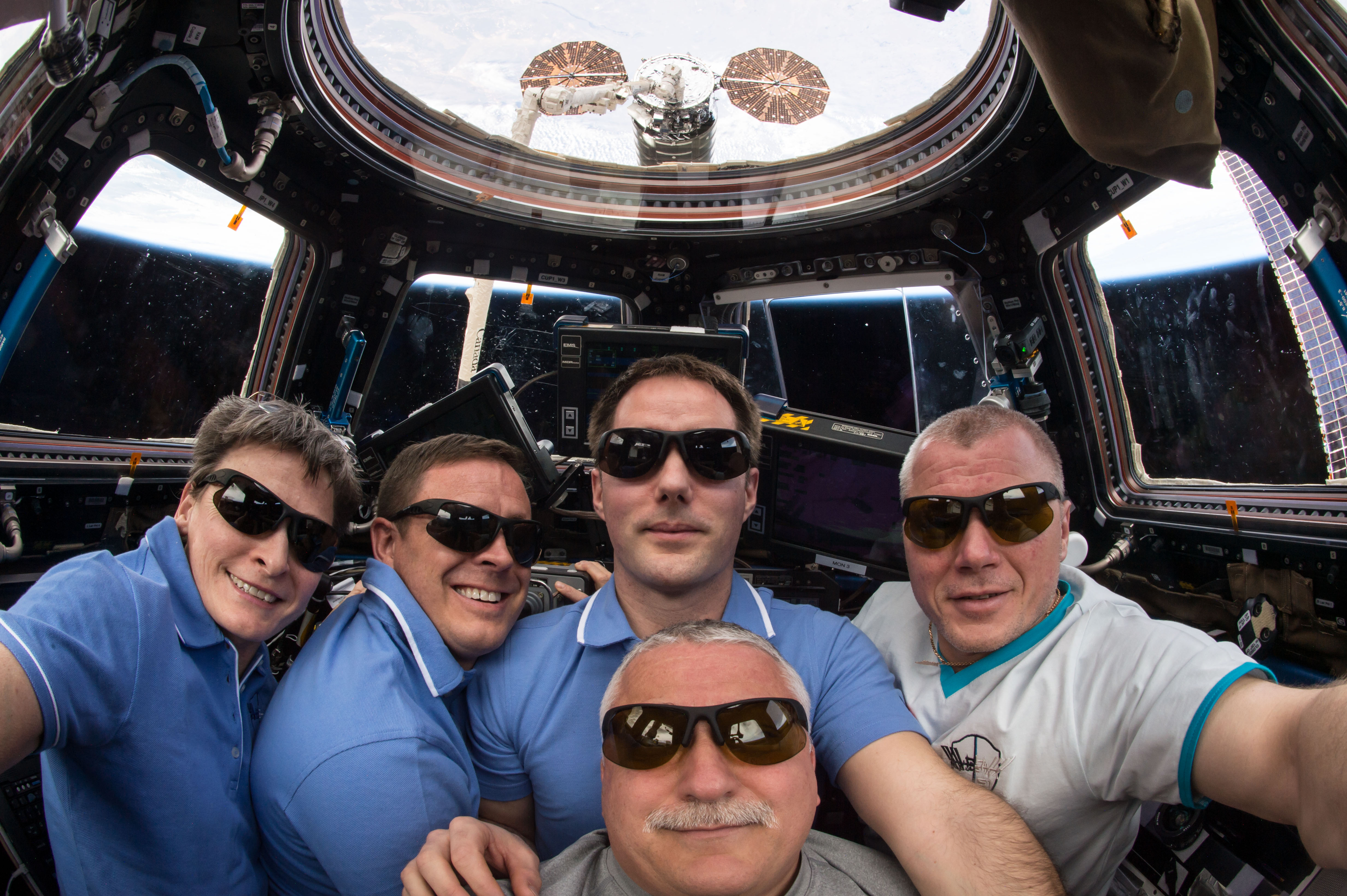 The five Expedition 51 crew members pose for a portrait with the captured Cygnus resupply ship from Orbital ATK just outside the cupola. In the foreground is Flight Engineer Fyodor Yurchikhin. In the background from left, are Commander Peggy Whitson and Flight Engineers Jack Fischer, Thomas Pesquet and Oleg Novitskiy.